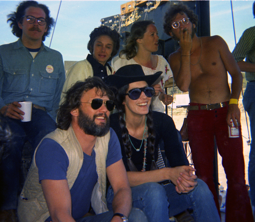 Kris Kristofferson and Rita Coolidge at the Dripping Springs reunion, that later became Willie Nelson's 4th of July picnic.